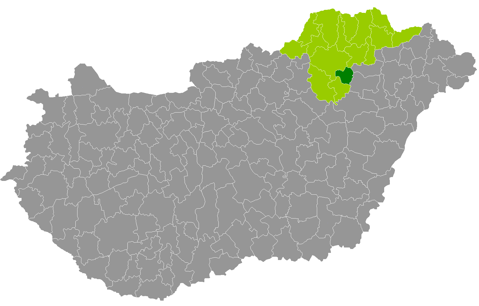 Location of Tiszaújváros District, Borsod-Abaúj-Zemplén, Hungary